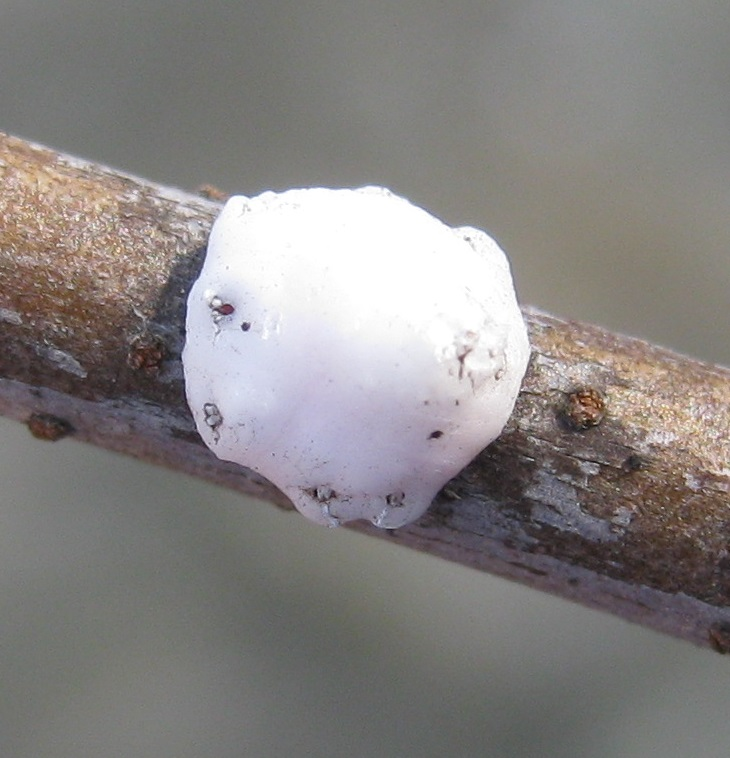 Soft scale insect, Ceroplastes cirripediformis (barnacle scale) on arrowwood (Viburnum dentatum). Size: 5 mm. Briar Bush Nature Center, Montgomery County, Pennsylvania, USA.